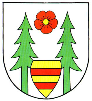 Coat of arms of the municipality of Hatten